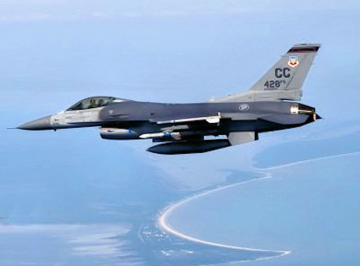 RSAF F-16C block 52 #94-0270 is flying next to an MQM-107 subscale drone in a Combat Archer [USAF photo]